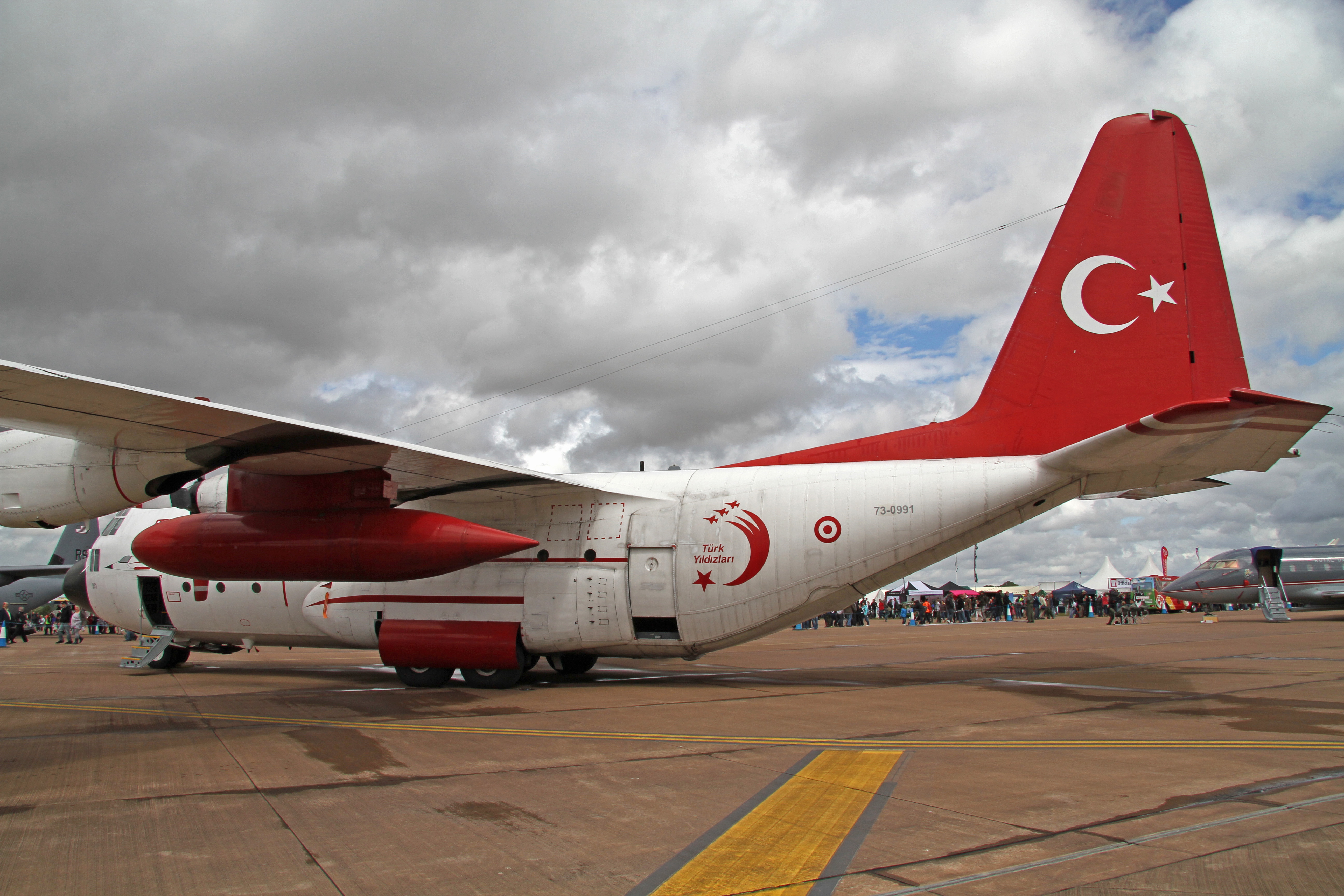 Lockheed C-130 Hercules 1